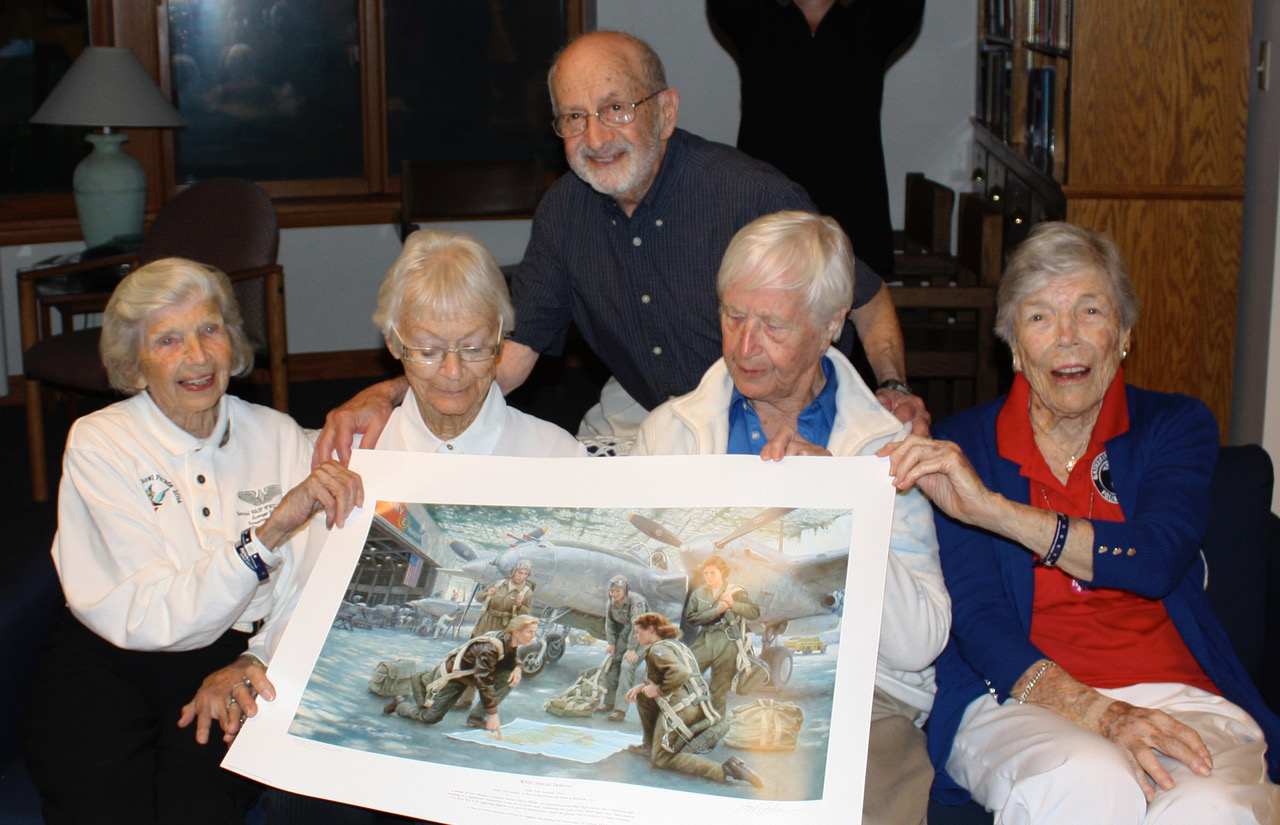 Artist Gil Cohen with four World-War II era Women Airforce Service Pilots (WASPS), looking at a painting of their fellow WASPs.